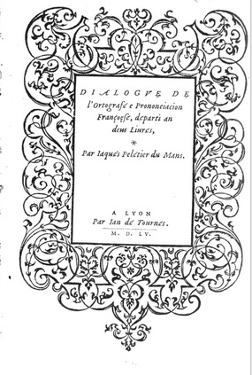 Frontpage of Dialogue de l'Ortografe e Prononciacion Françoese (1555) by Jacques Peletier du Mans (1517-1582)